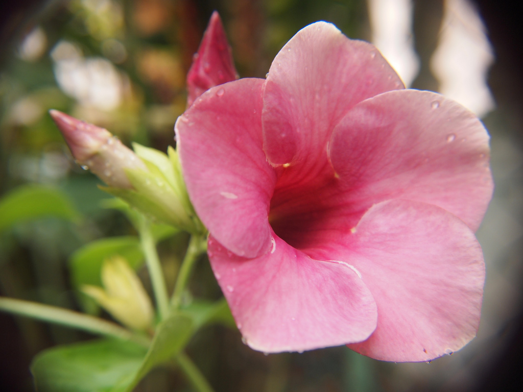 Allamanda blanchetii in Malaysia